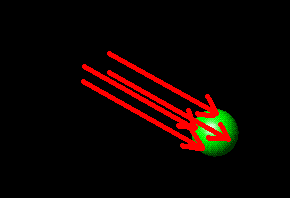 Second frame of a video sequence